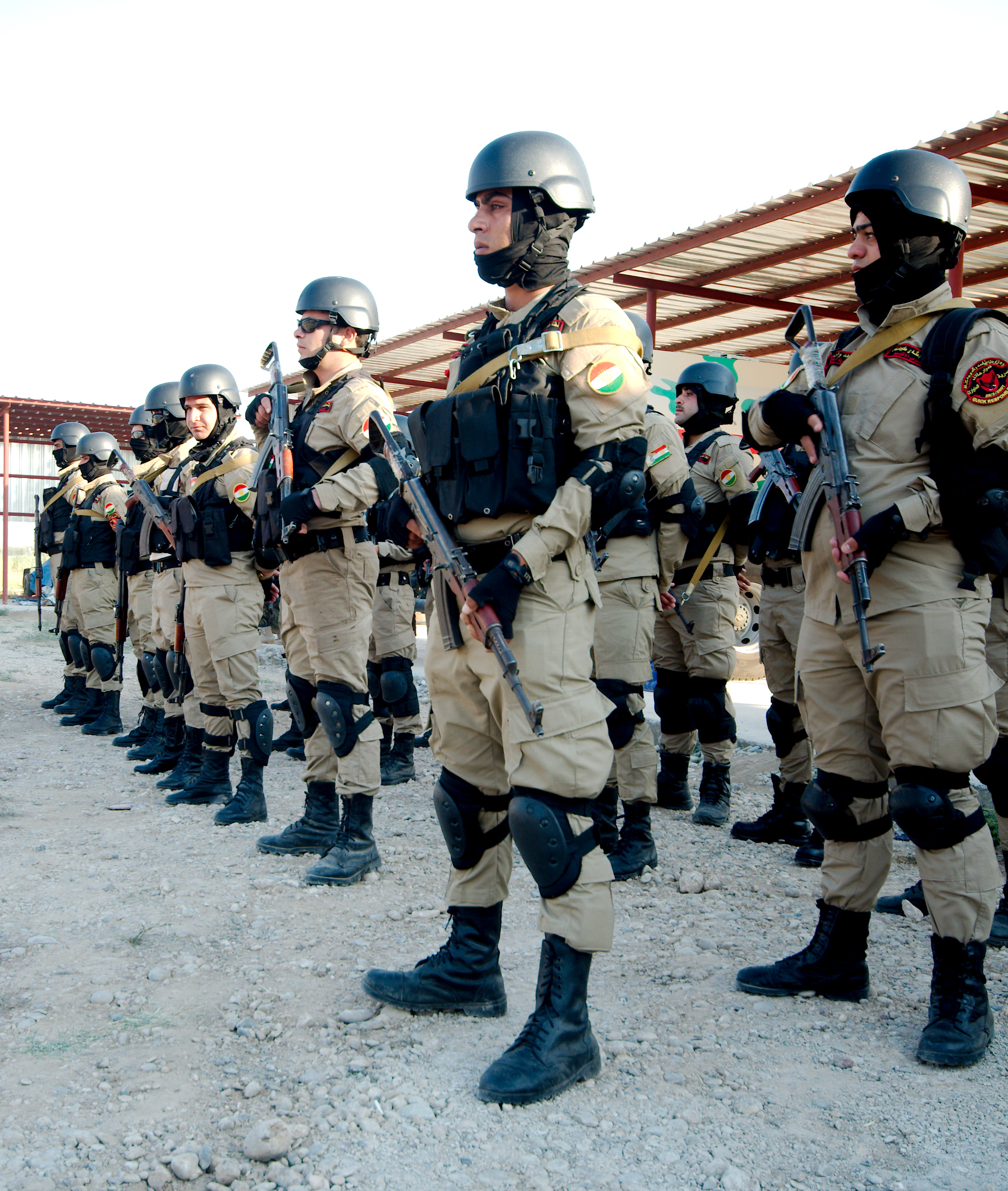 Pershmega special forces gathered near Syria on June 23, 2014.